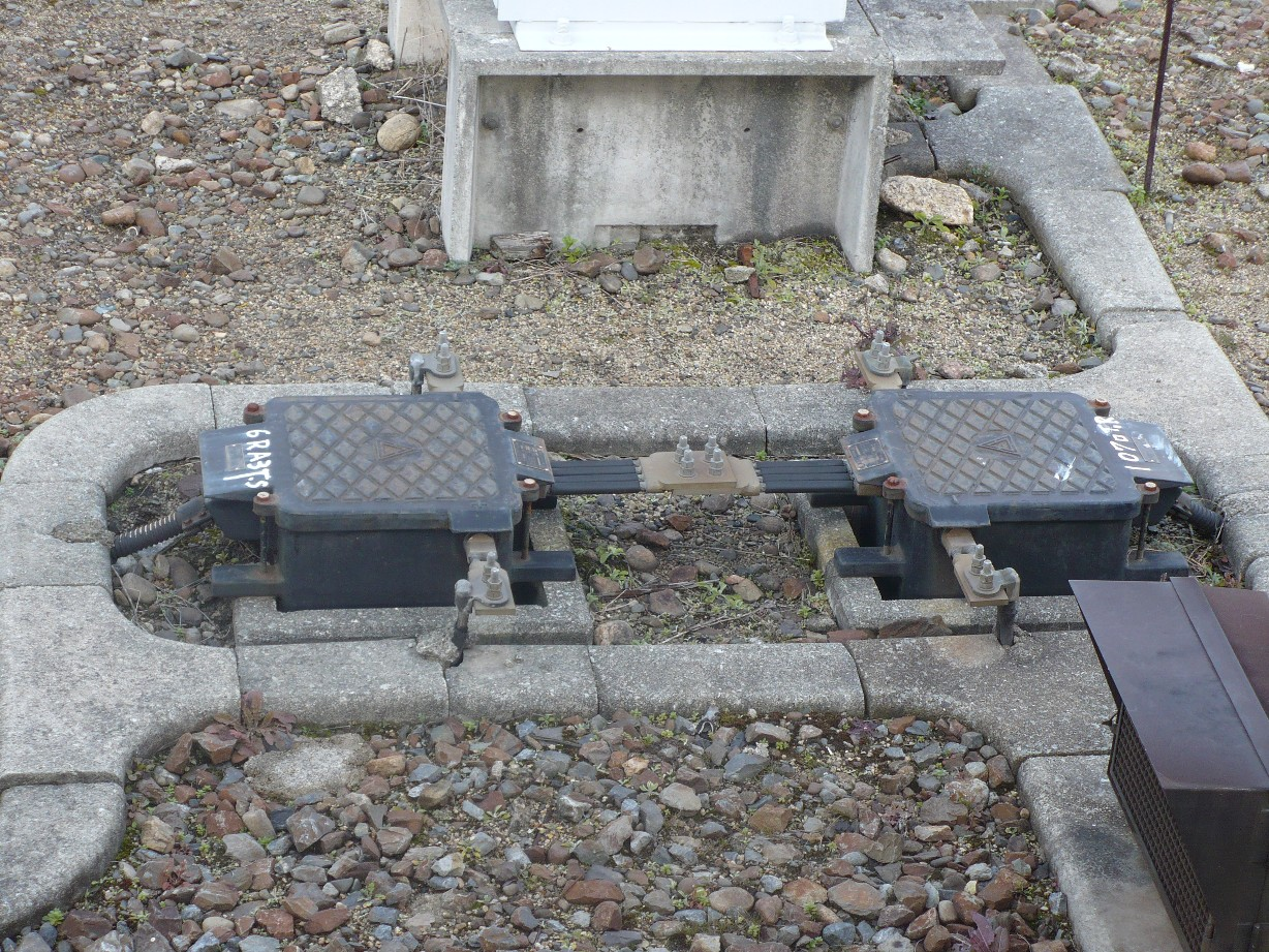 Impedance bond used in a border of track circuit sections, to conduct return current of electric vehicles and to filter signal current. The photo was taken at Kidu station, Kyoto prefecture Japan